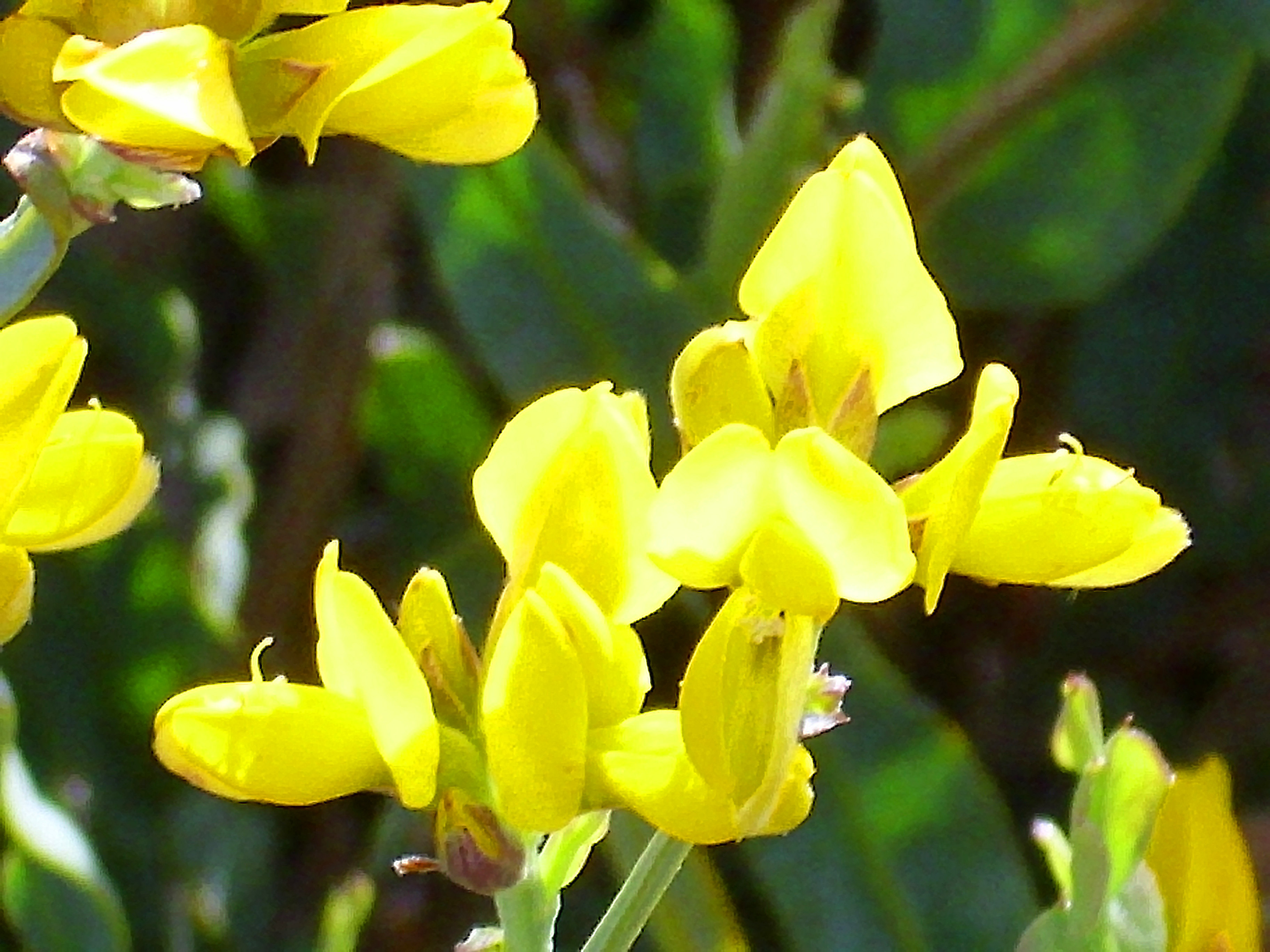 Genista tridentata close up, Sierra Madrona, Spain